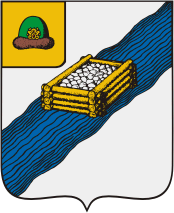 Ryazhsk rayon (Ryazan oblast), coat of arms